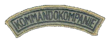 Internal coat of arms of the Bundeswehr (Armed Forces of the Federal Republic of Germany). → Remarks on naming and categorization scheme